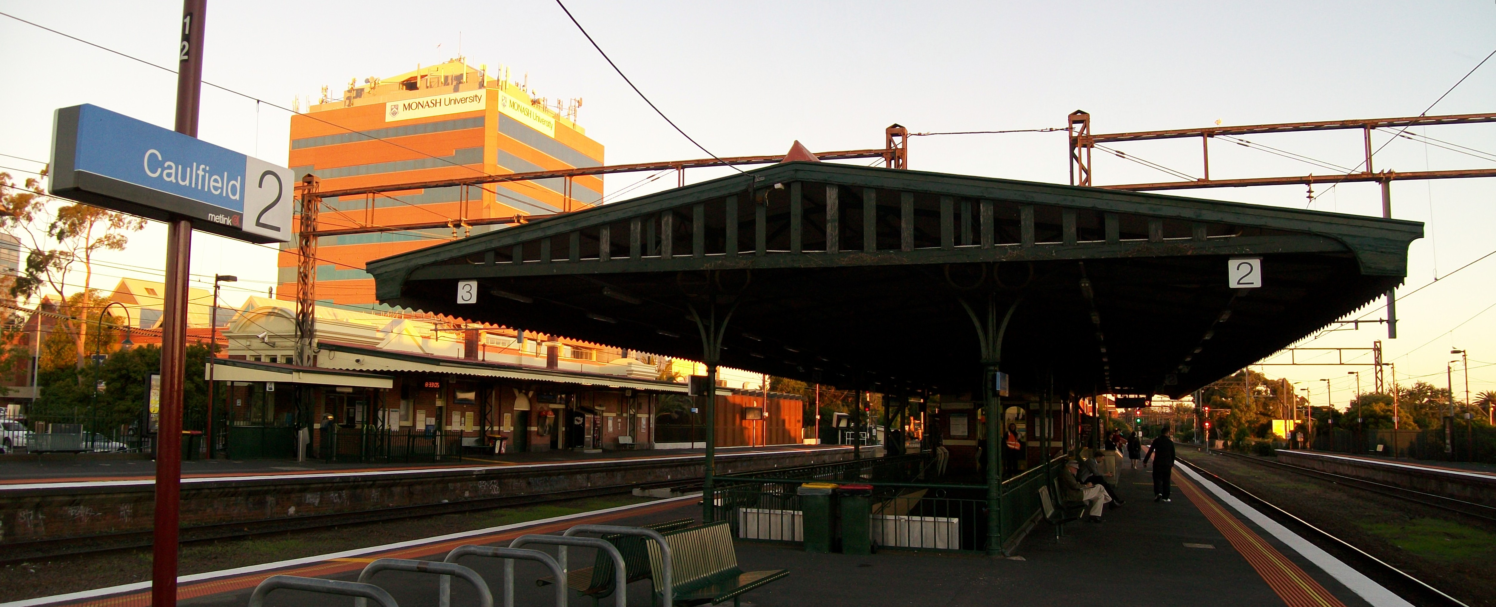 Photograph of Caulfield railway station, Melbourne, Australia. View from platform 2 looking east towards Monash University.